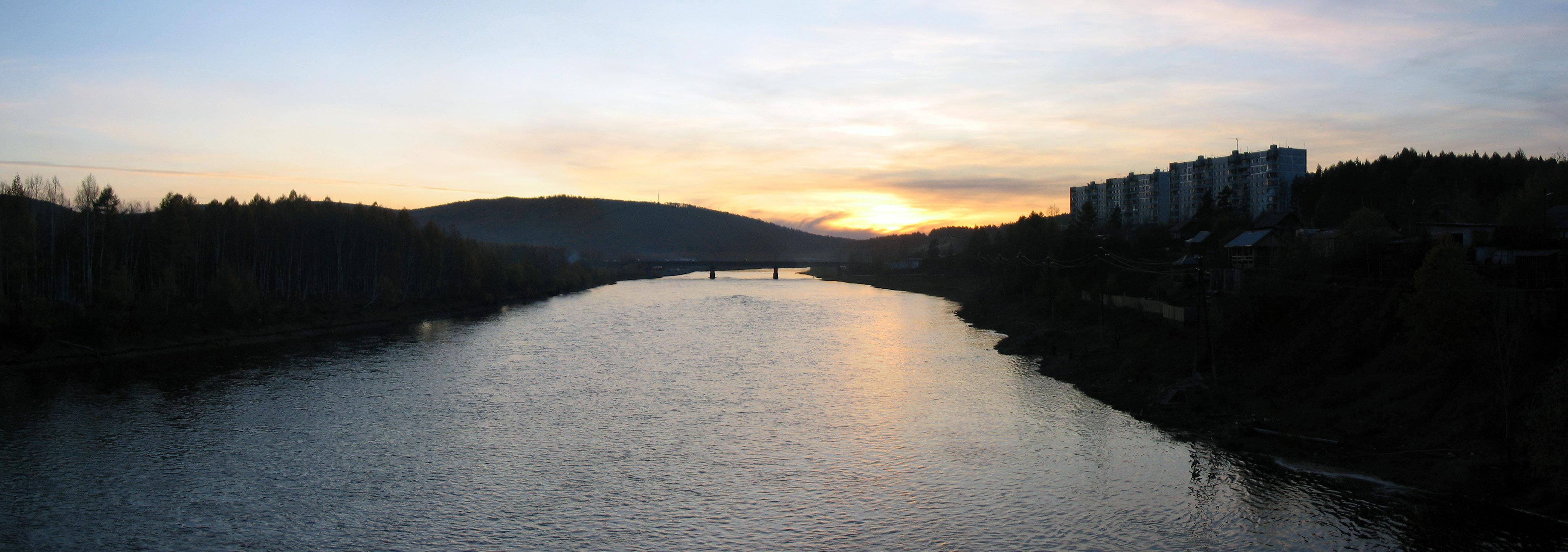 Tynda river from foot-bridge in Tynda city — Amur Oblast.